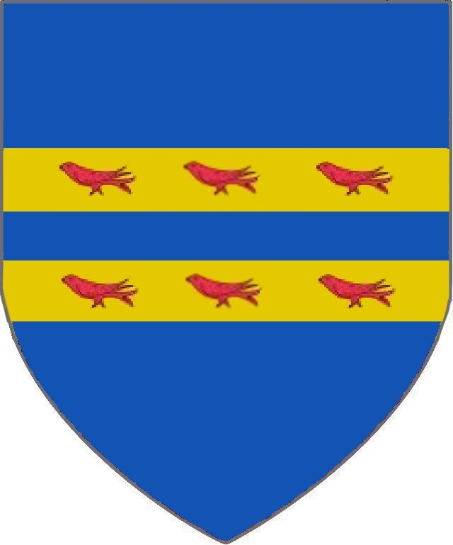 Burdet of Huncote Arms